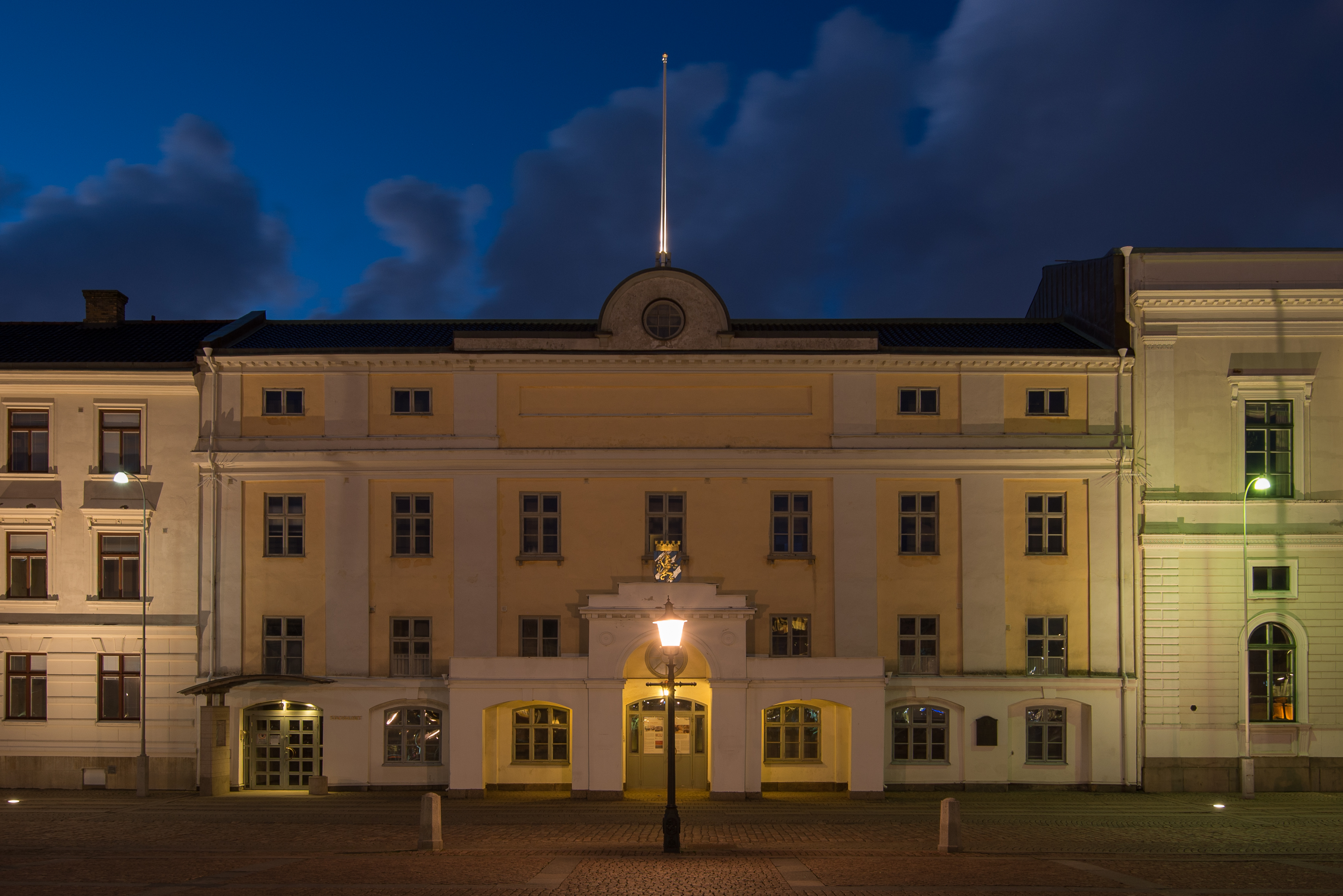 Gothenburg city hall.